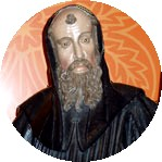 Saint Aemilian, a Visigothic saint